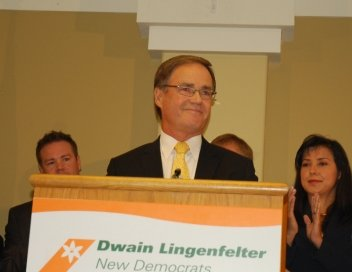 Dwain Lingenfelter launches his campaign in Regina, Saskatchewan.